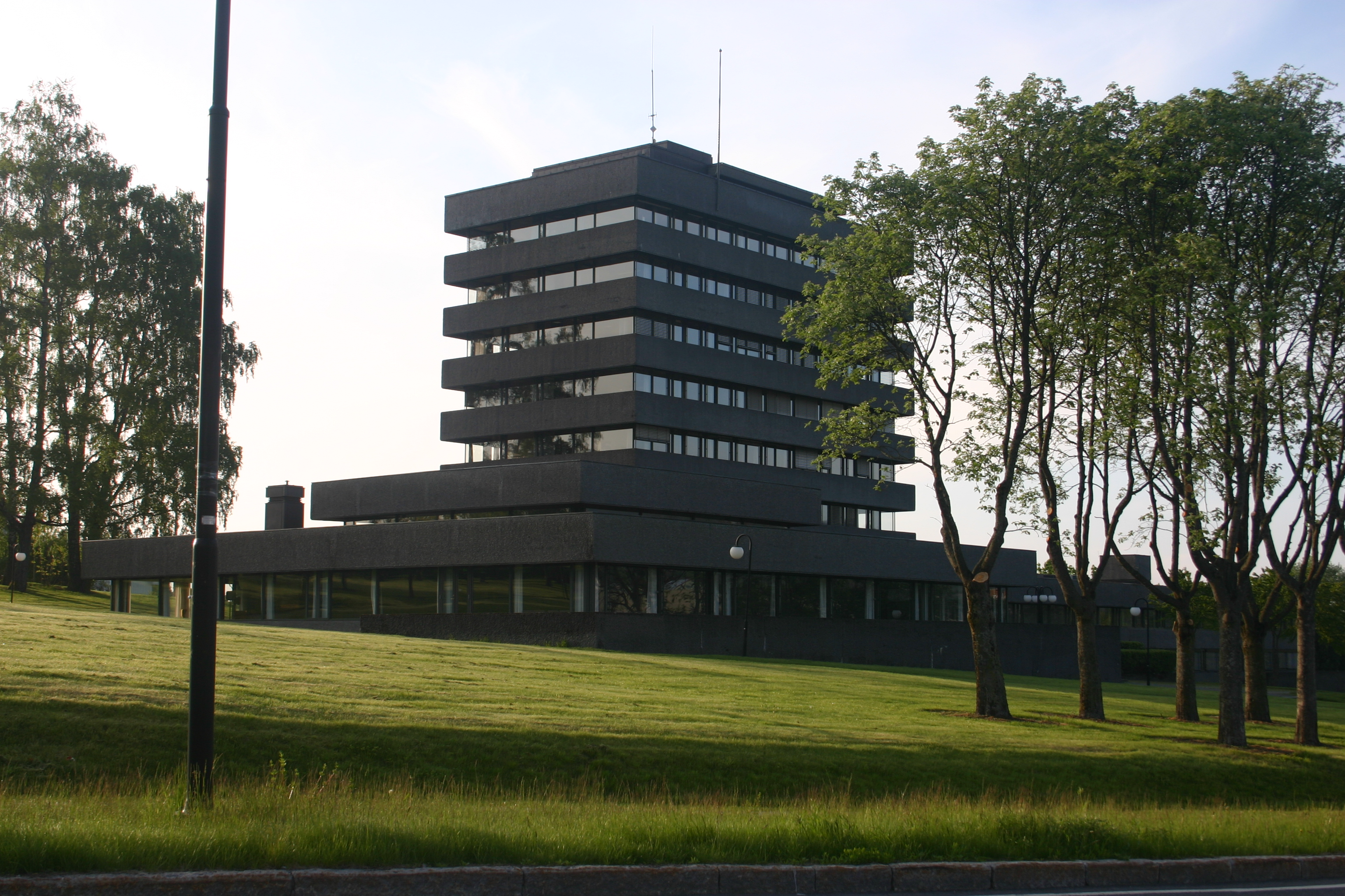 Asker cityhall - west side 2010 05 31, Asker, Norway